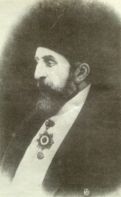 Abdulhamid II